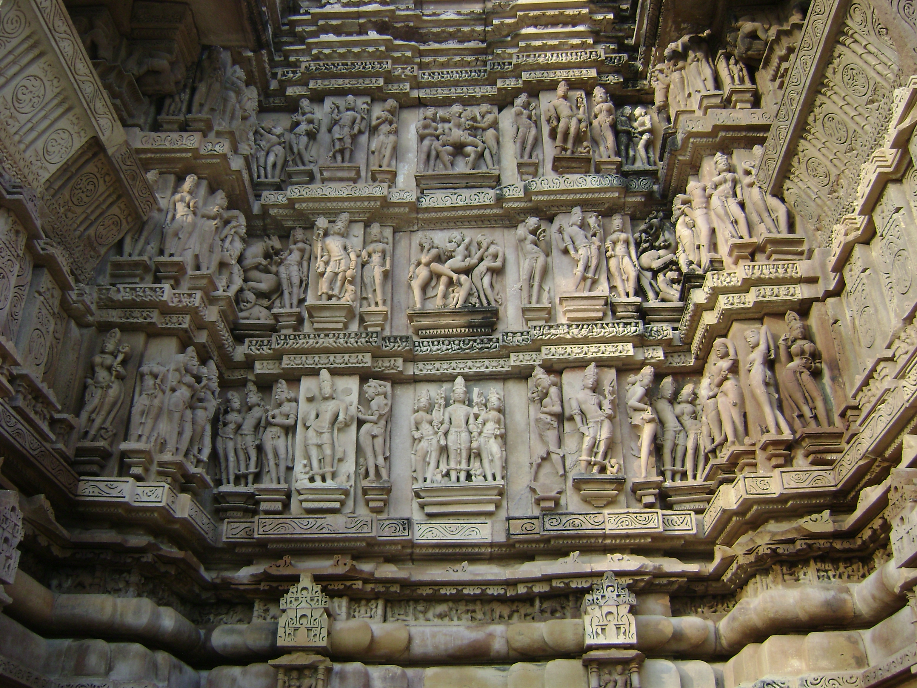 khajuraho temple pic